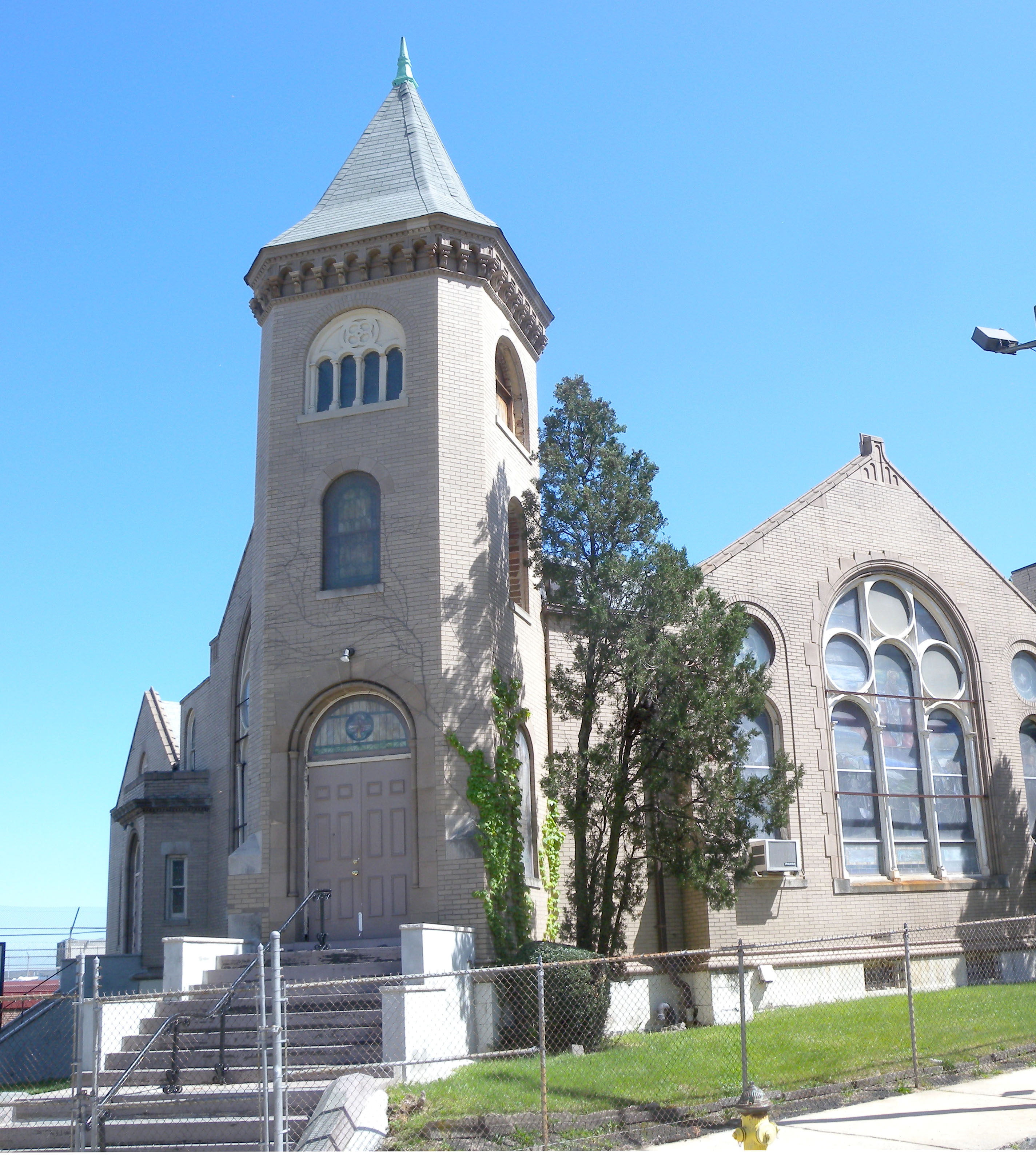 Looking east along Clinton Avenue and across Hedden Terrace at church on a sunny midday.